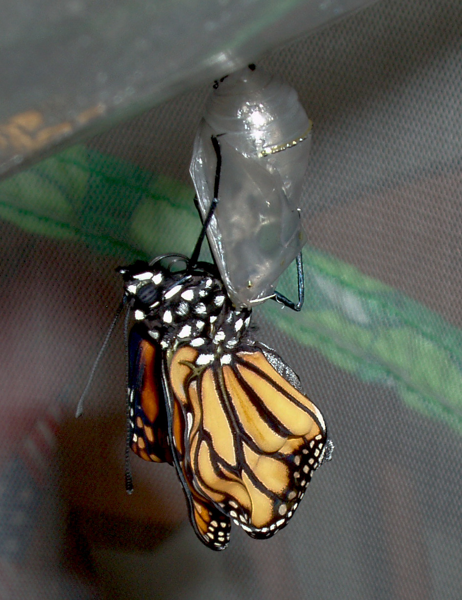 A Danaus plexippus en commonly know as a Monarch Butterfly emerging from its chrysalis.